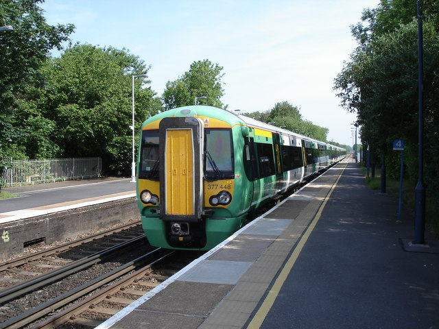 Hassocks Station - train arriving from London